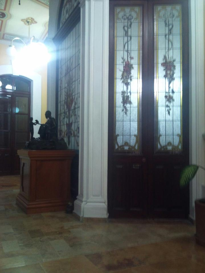 Dirección